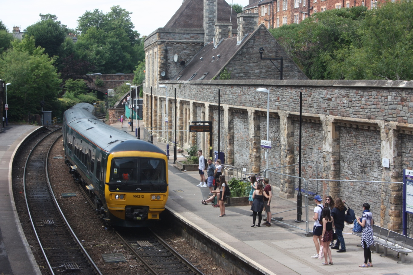 Great Western Railway's 166212 at Clifton Down on the Severn Beach Line in Bristol, the first week that these units have worked this line after being transferred from the London area.